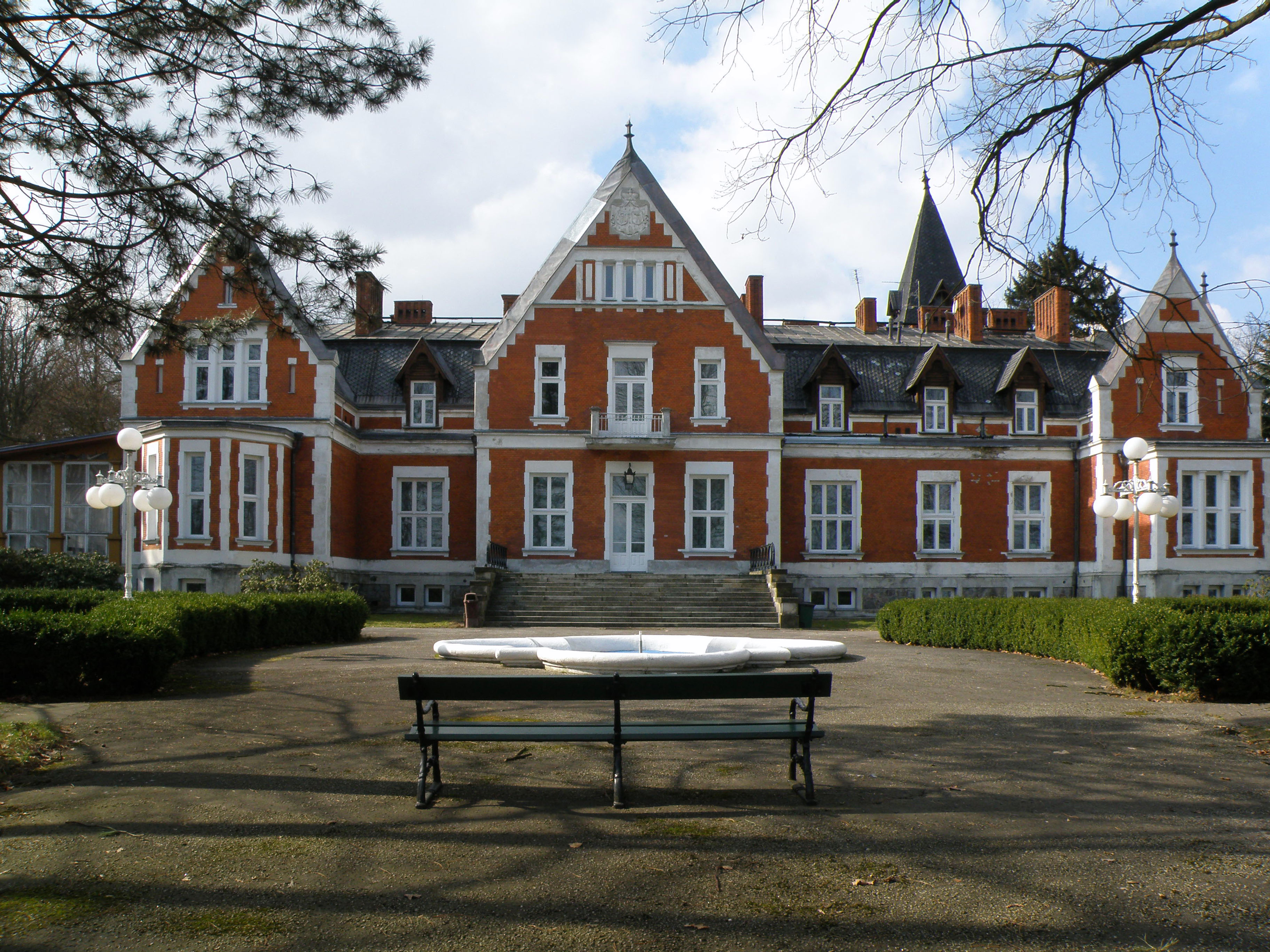 Poland, Radziwills’ Palace in Jadwisin